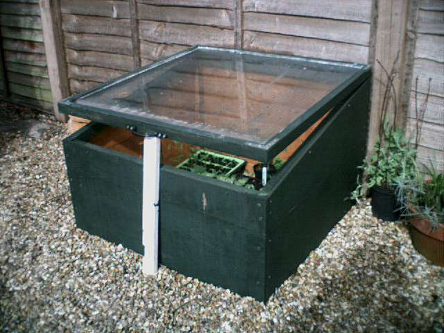 A picture of my coldframe